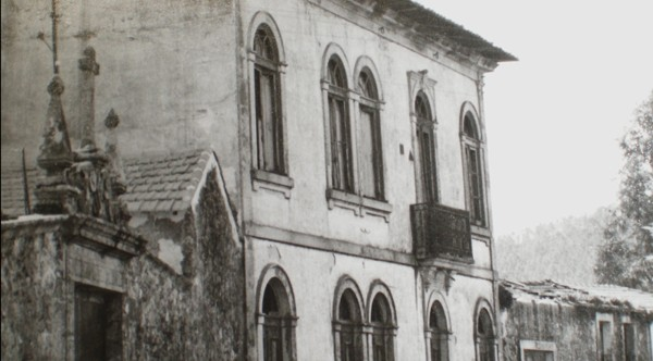 Alfena City Hall, 1836